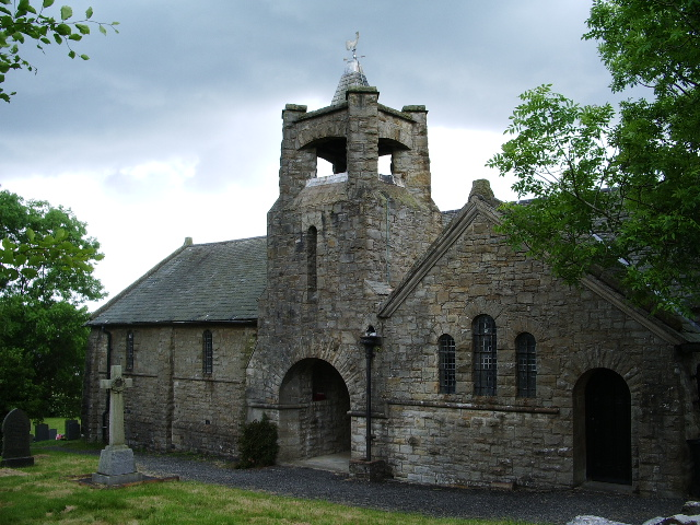 St Columba's parish church, Broughton Moor, Cumbria, seen from the northwest